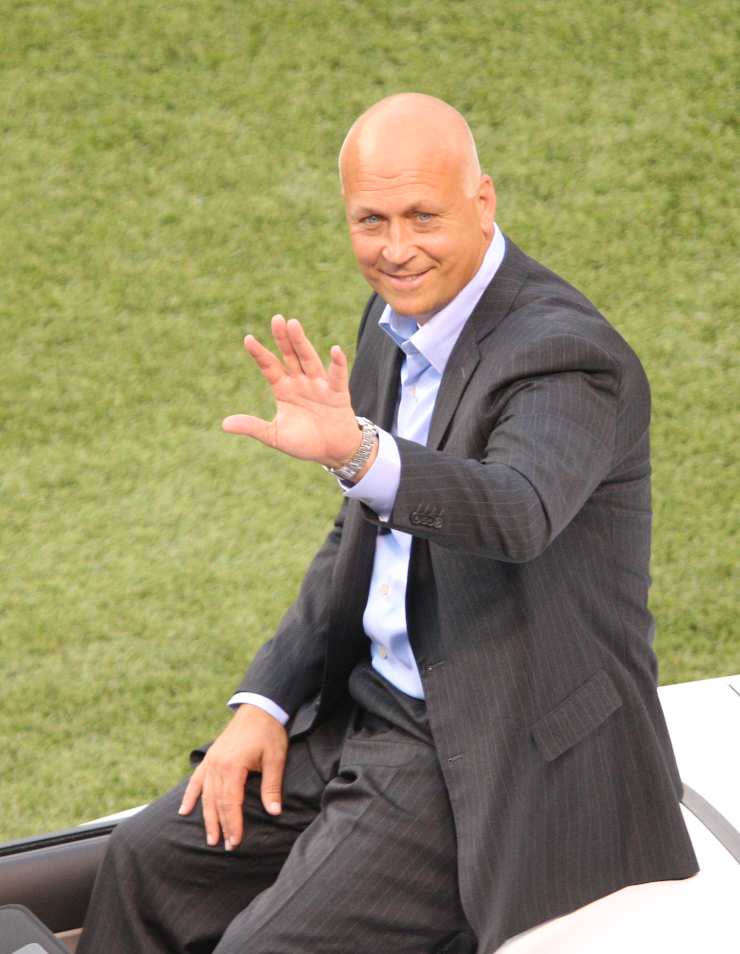 Cal Ripken, Jr. being driven around Camden Yards as he is honored in 2007